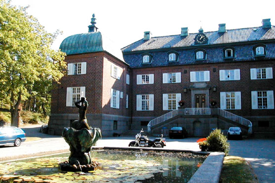 Berga slott